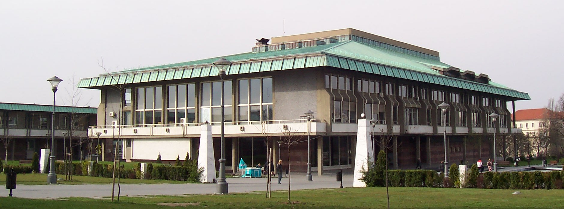 Building of the National Library of Serbia.